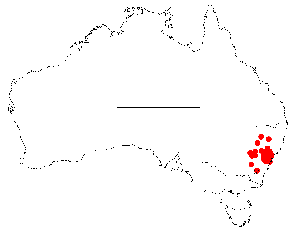 Acacia undulifolia occurrence data from Australasia Virtual Herbarium downloaded from on 8 December 2018